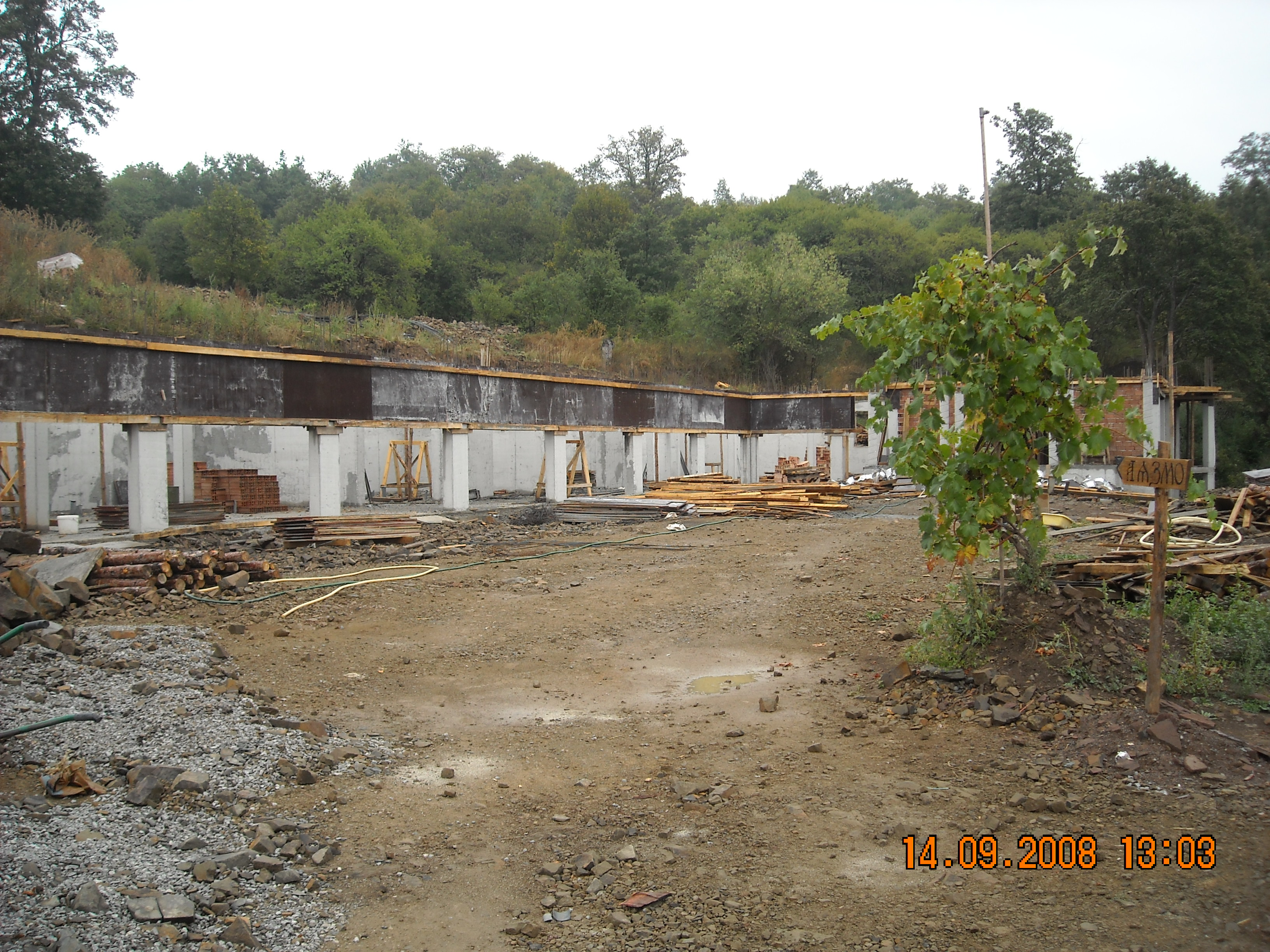 The newly constructing building of the Gigintsi Monastery